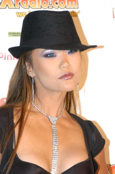 Mia Smiles at Listeners Choice Awards, December 2 2006